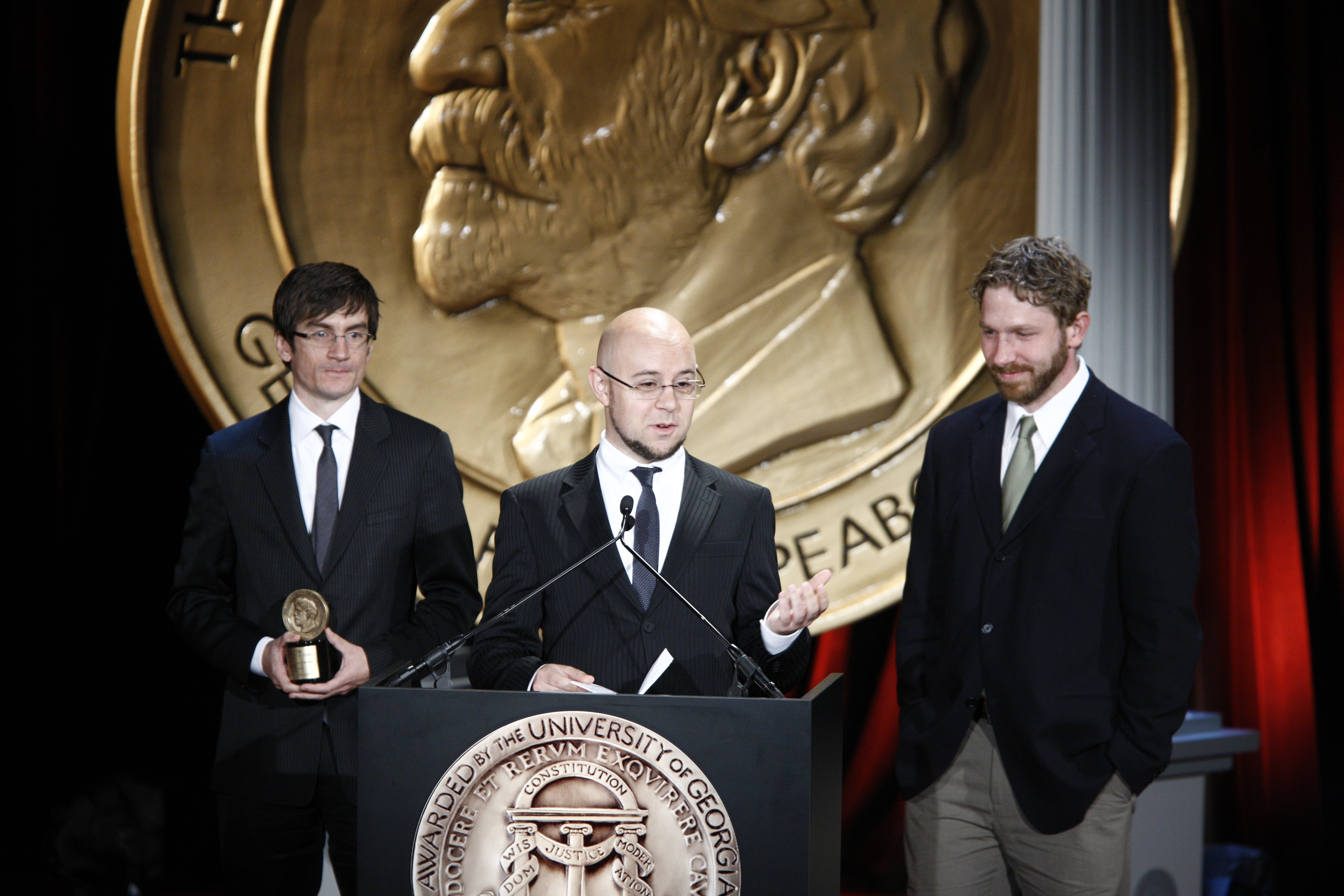 PHOTO CREDIT: ANDERS KRUSBERG / PEABODY AWARDS Michael Dante DiMartino, Bryan Konietzko and Aaron Ehasz 69th Annual Peabody Awards Luncheon Waldorf=Astoria Hotel New York, NY USA May 17, 2010